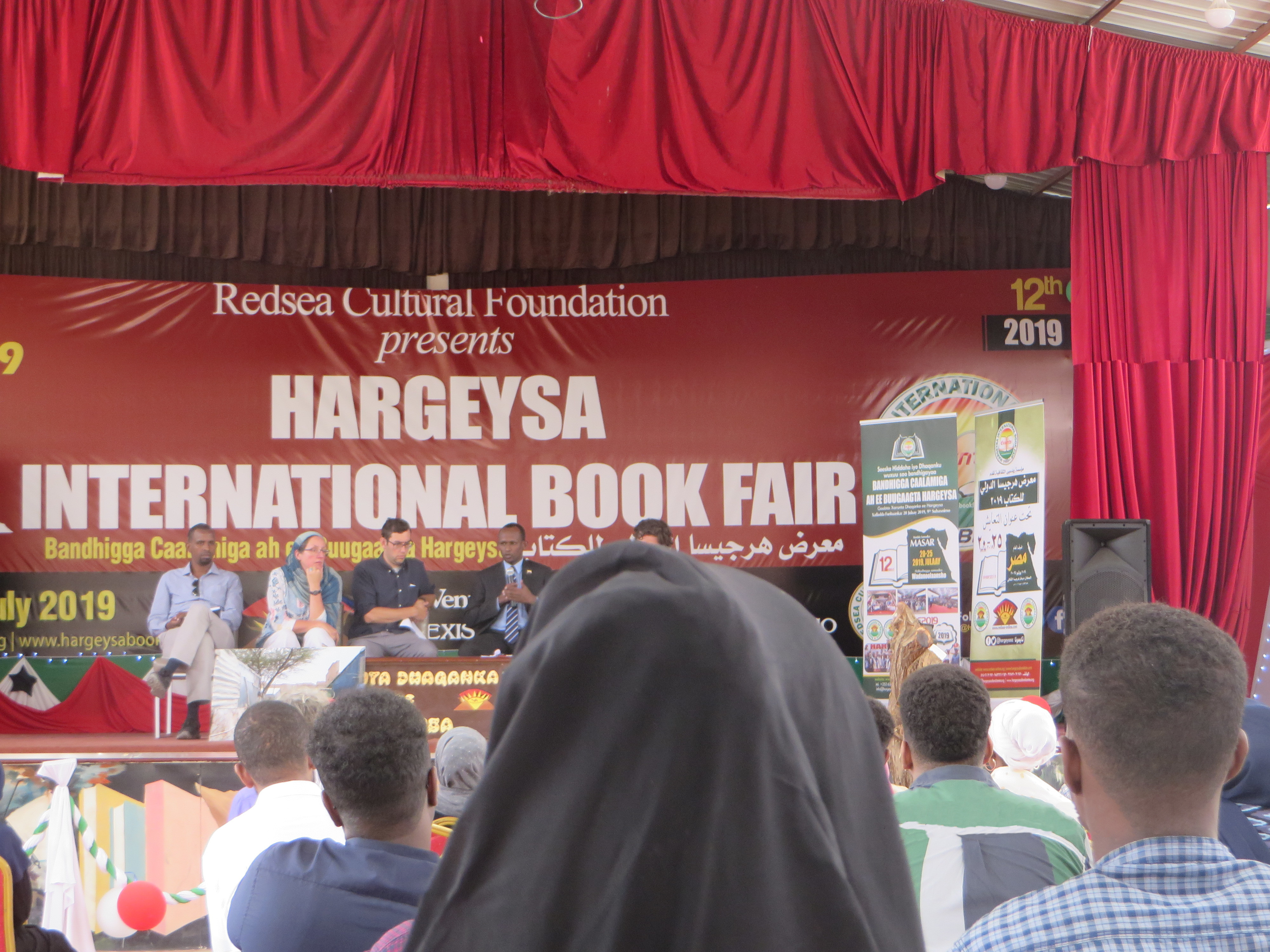 A panel discussion with on stage from the left Dr. Abdirahman Edle, Dr. Jutta Bakonyi, Dr. Peter Chonka, Mr. Mubarak, director general of the Ministry of Planning and National Development. A woman with a grey headscarf. Hargeysa 12th International Book Fair 20-25 July 2019.